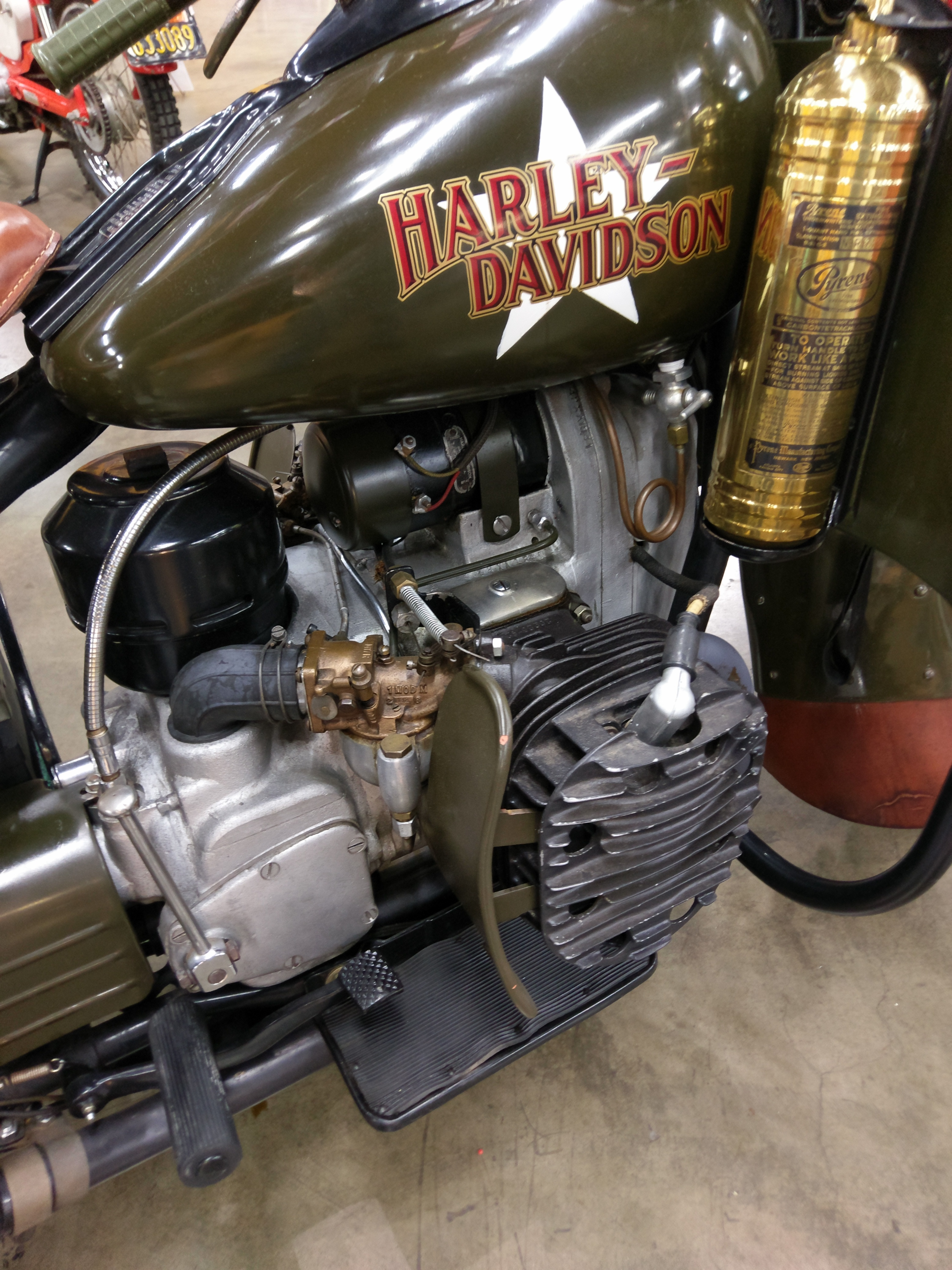 Boxter design 2 cylinder engine. On display at the California Automobile Museum. Photo by Jim Heaphy.